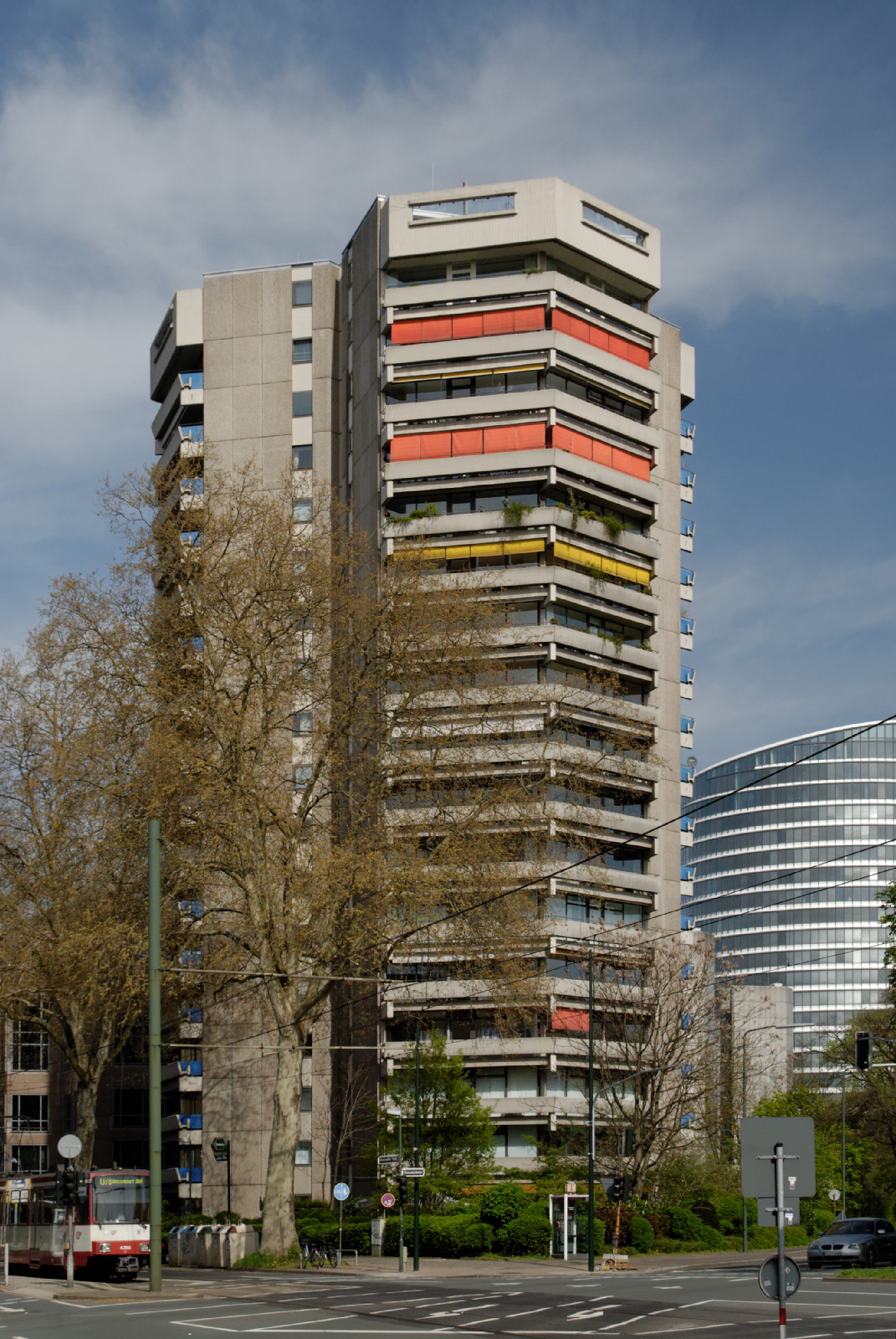 Sternhaus, Kaiserswerther Straße 115 in Düsseldorf-Golzheim, Germany